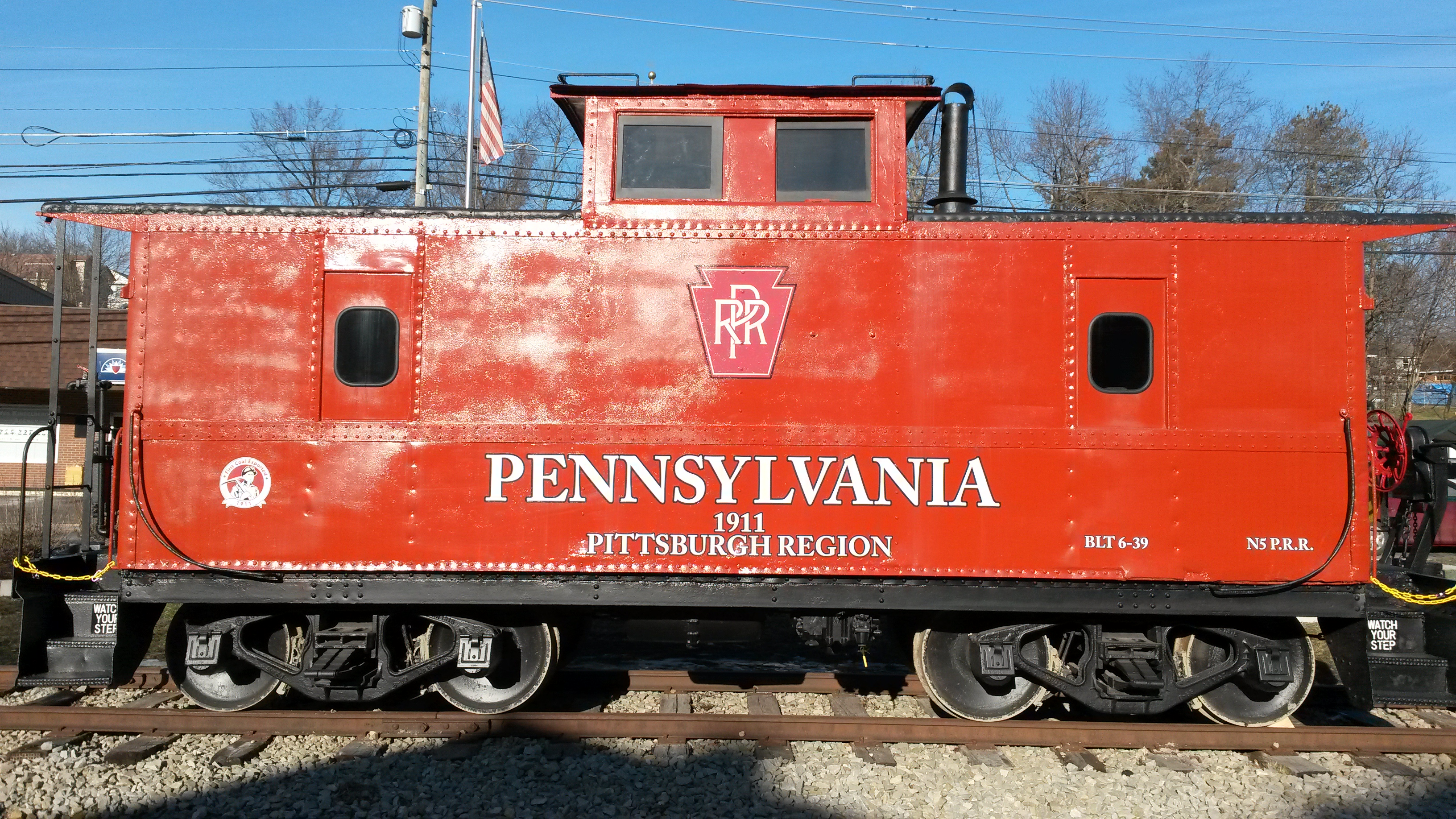 A restored 1939 Caboose from the Turtle Creek Industrial Railroad in Export, Pennsylvania